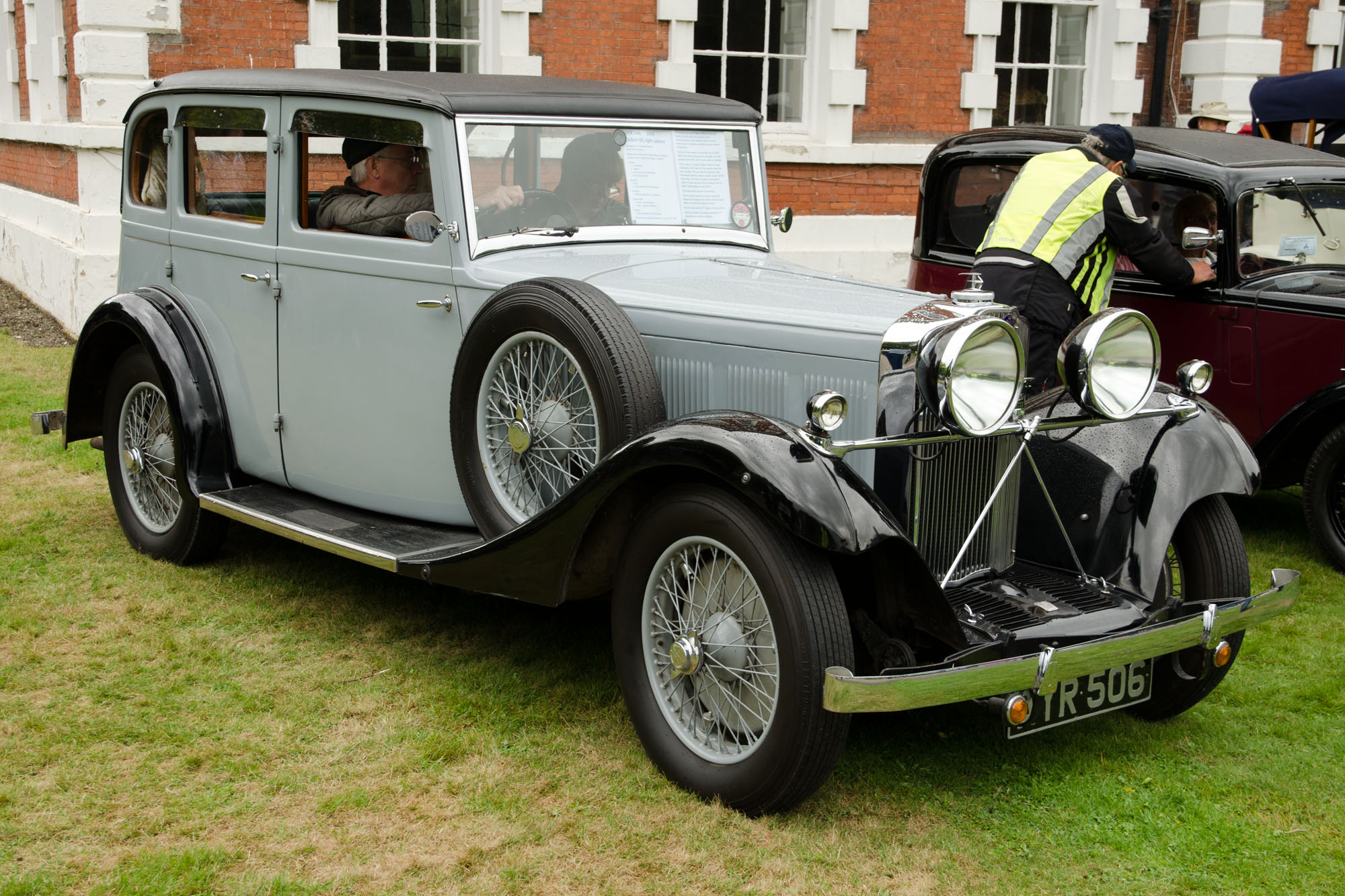 1934 Talbot 65 6-light saloon (DVLA) first registered 9 May 1934, 1694 cc Lytham Hall Classic Car Show 03/08/2014